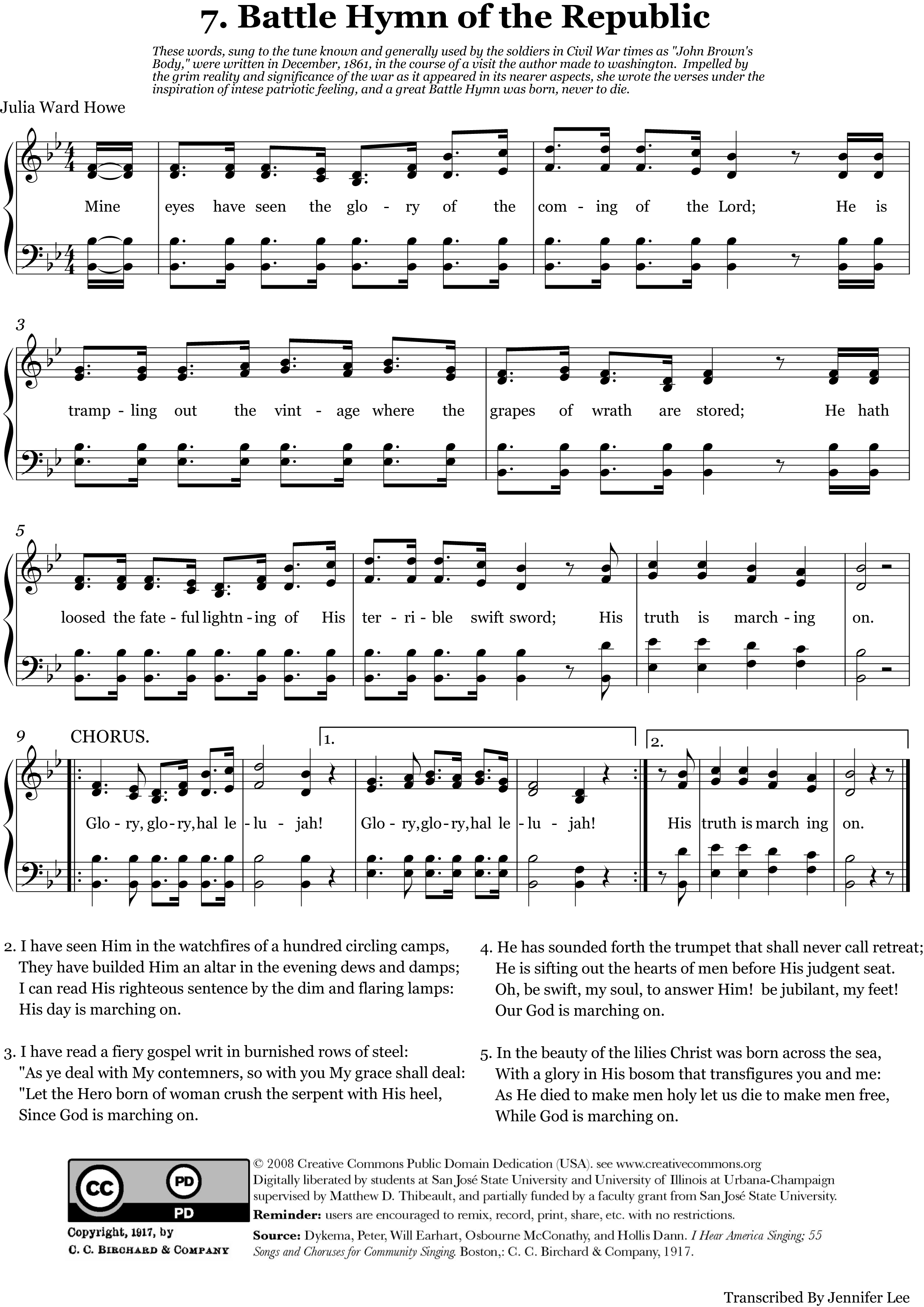 Battle Hymn of the Republic